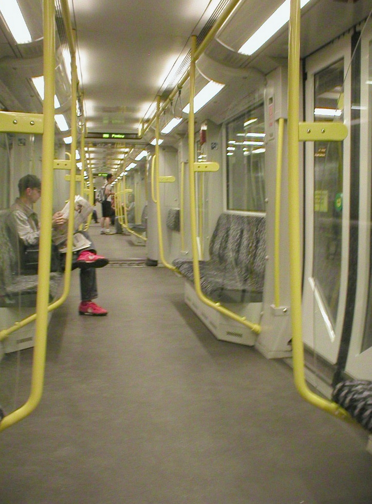 Interior of the Berlin U-Bahn type Hk